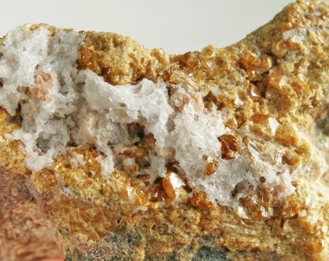 Roméite (Var.: Atopite) Locality: Långban, Filipstad, Värmland, Sweden (Locality at ) Size: 6.7 x 4.4 x 2.2 cm. Romeite (variety atopite) is unique to the world-famous Langban deposit of Sweden. Romeite is a member of the stibiconite group and is quite rare in itself, but contains sodium in substitution for calcium and contains fluorine, unlike romeite. This rich specimen contains discrete, gemmy, orange-brown atopite crystals to 3 mm and pastel-yellow and reddish-brown grains of atopite. Very uncommon material. Ex. Dr. Mark Feinglos Collection, a noted rarities specialist.